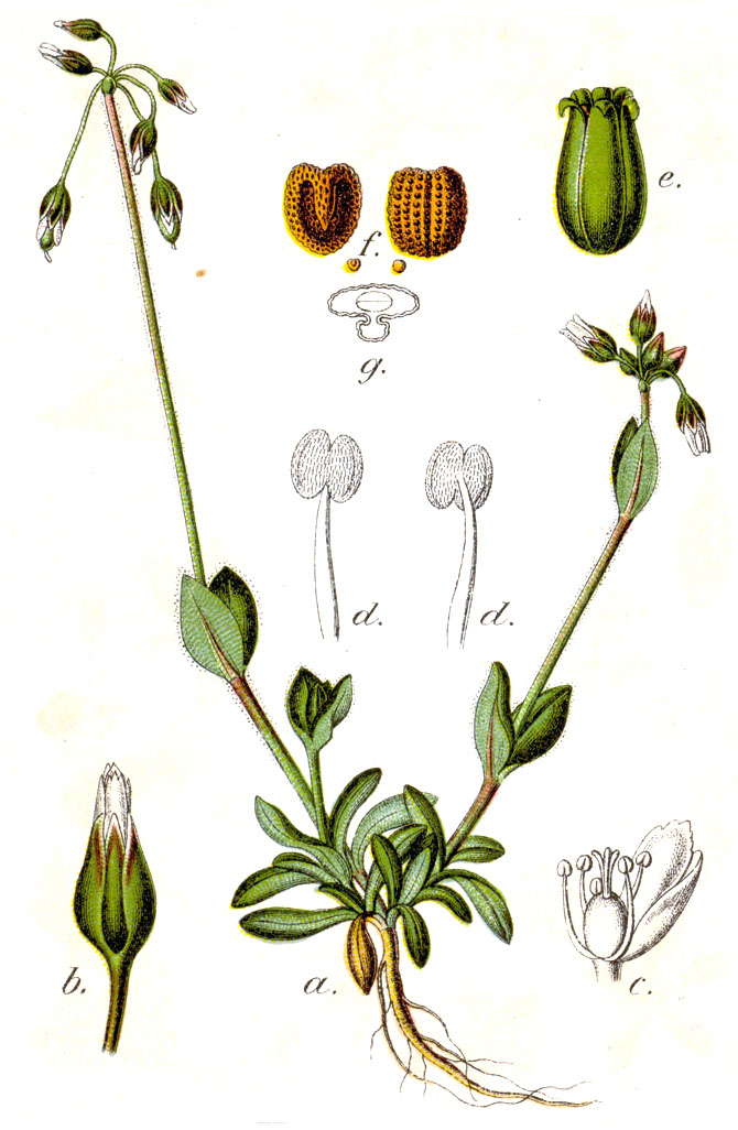 Holosteum umbellatum subsp. umbellatum, syn. Alsine umbellata Lam. Original Caption Spurre, Alsine umbellata